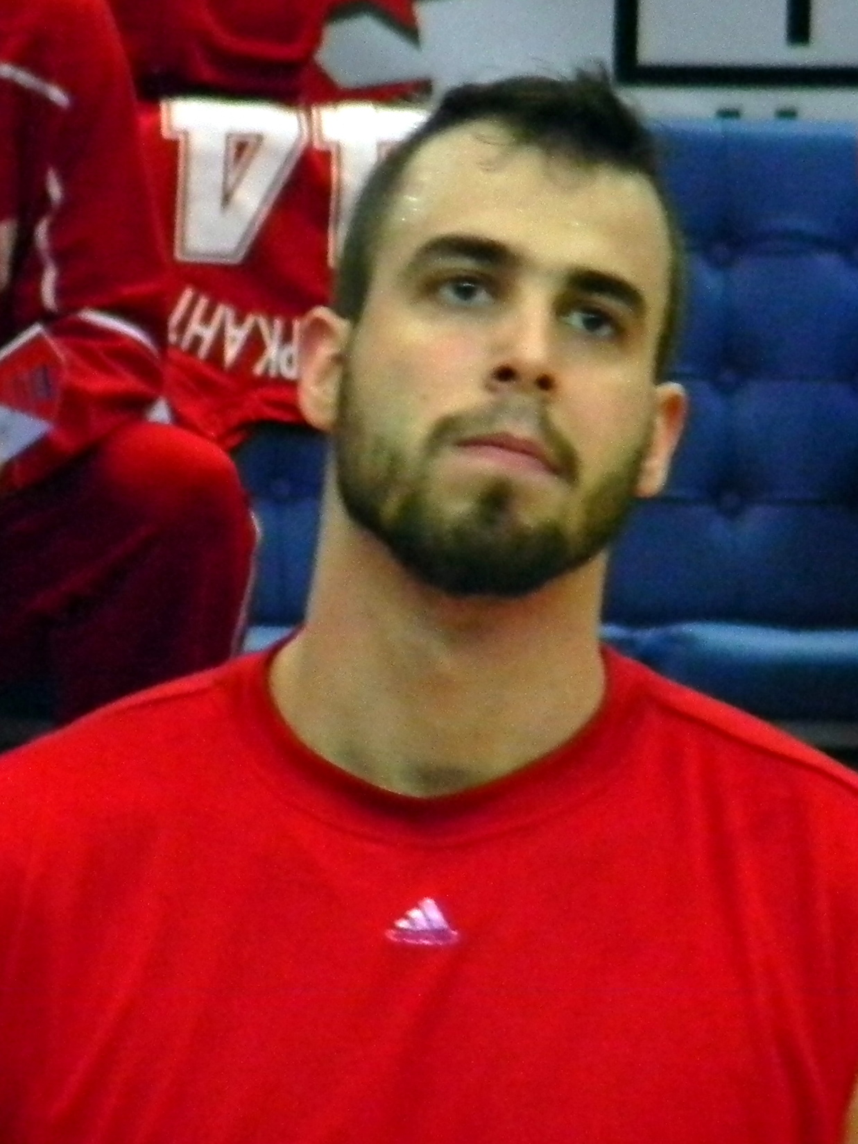 Nikola Dragović, serbian basketball player from Spartak Saint-Petersburg